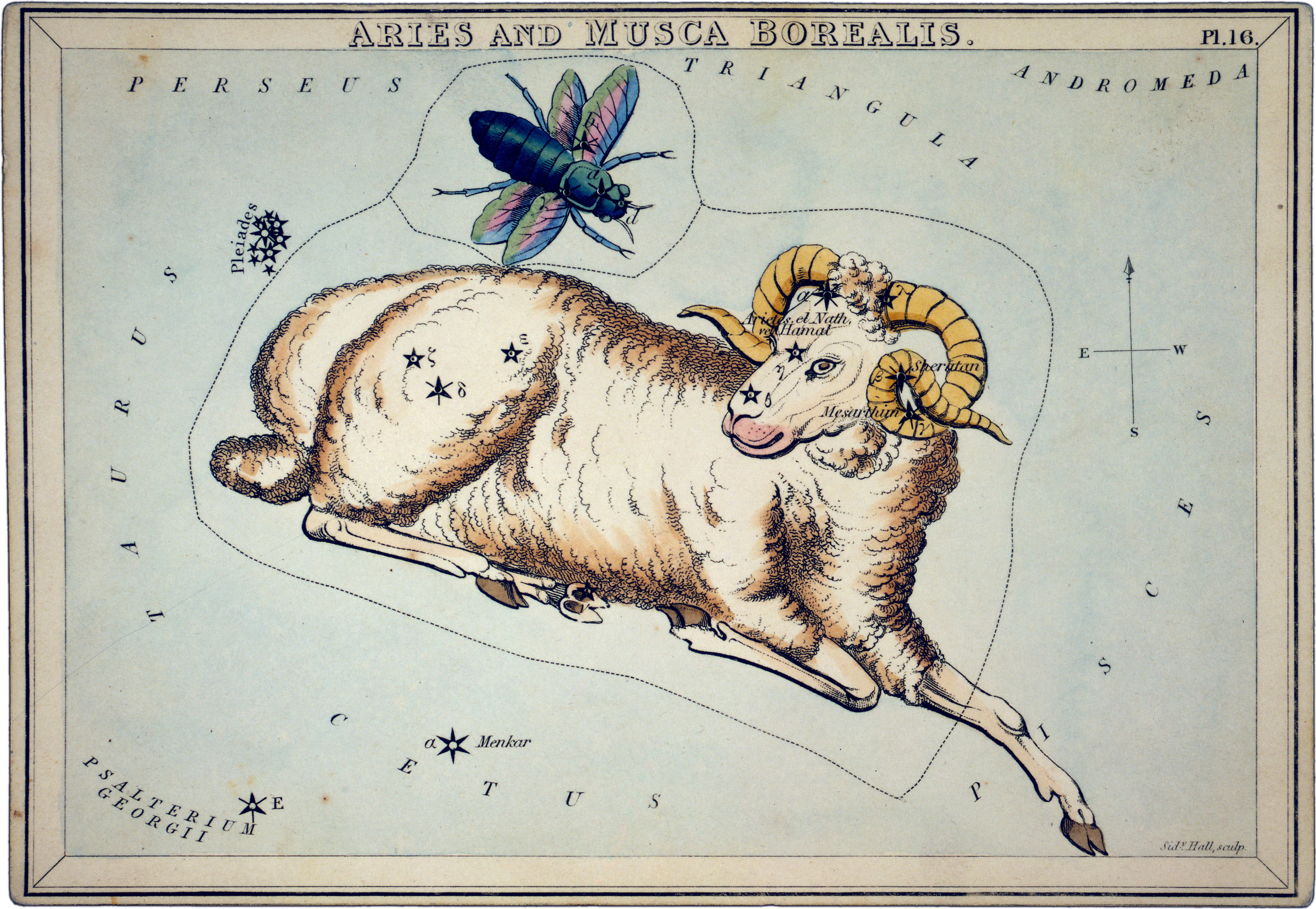 "Aries and Musco Borealis", plate 16 in Urania's Mirror, a set of celestial cards accompanied by A familiar treatise on astronomy ... Restoration by trialsanderrors: From Urania's Mirror: Aries and Musco Borealis, 1825